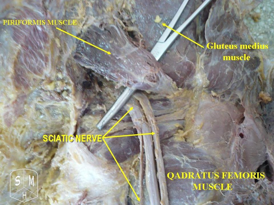 Sciatic nerve